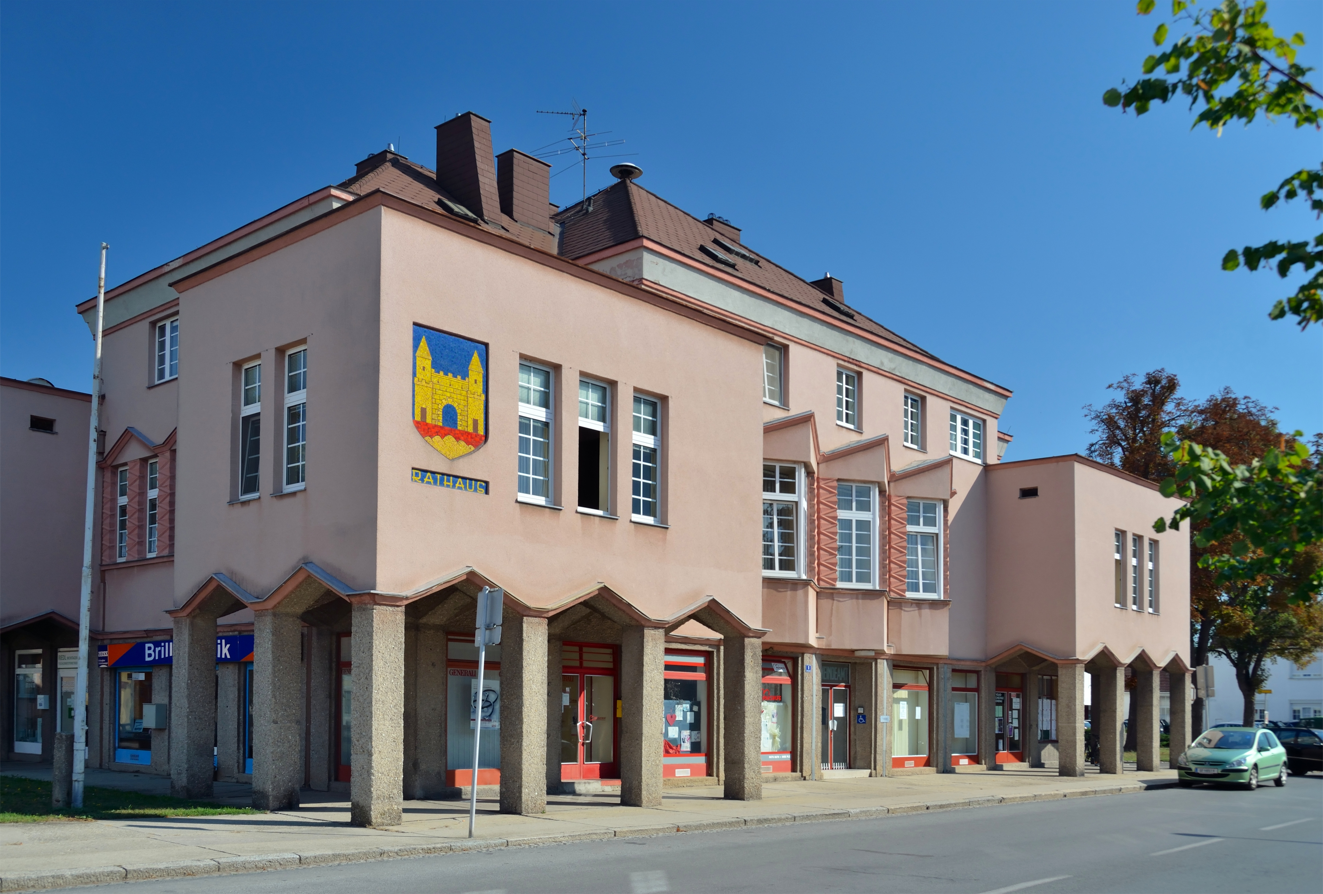 The town hall of Hohenau an der March, Lower Austria, is protected as a cultural heritage monument.